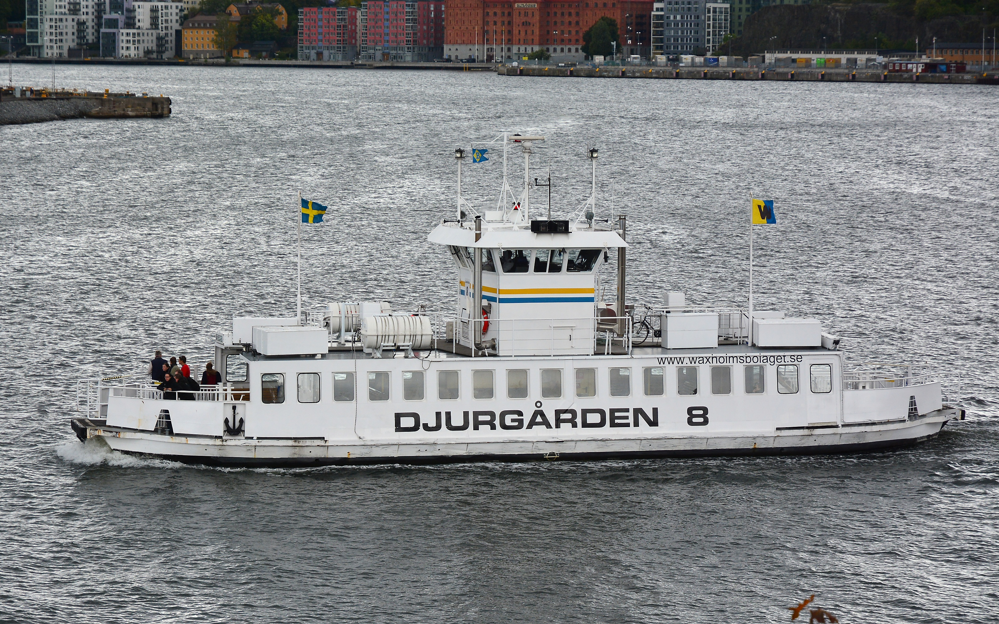 Djurgårdsfärjan Djurgården 8 between Kastellholmen and Beckholmen in Stockholm, Sweden.